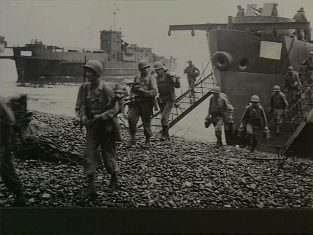 New Guinea. 7 January 1944. Landing unopposed, American forces walking down the gangplanks of the landing craft, infantry (LCI) take the beach at Saidor, a Japanese supply base in northern New Guinea. The landing has been consolidated, and airstrips are being laid out.